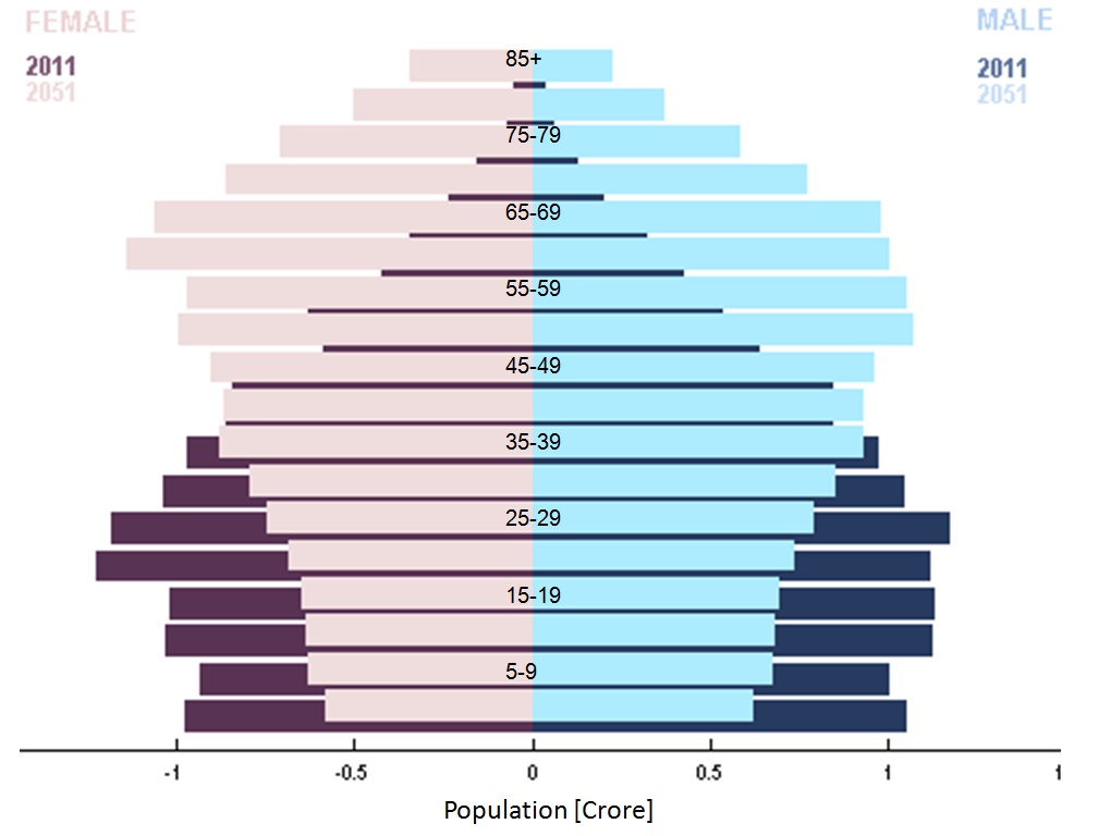 Population Pyramid in South India 2011 -51